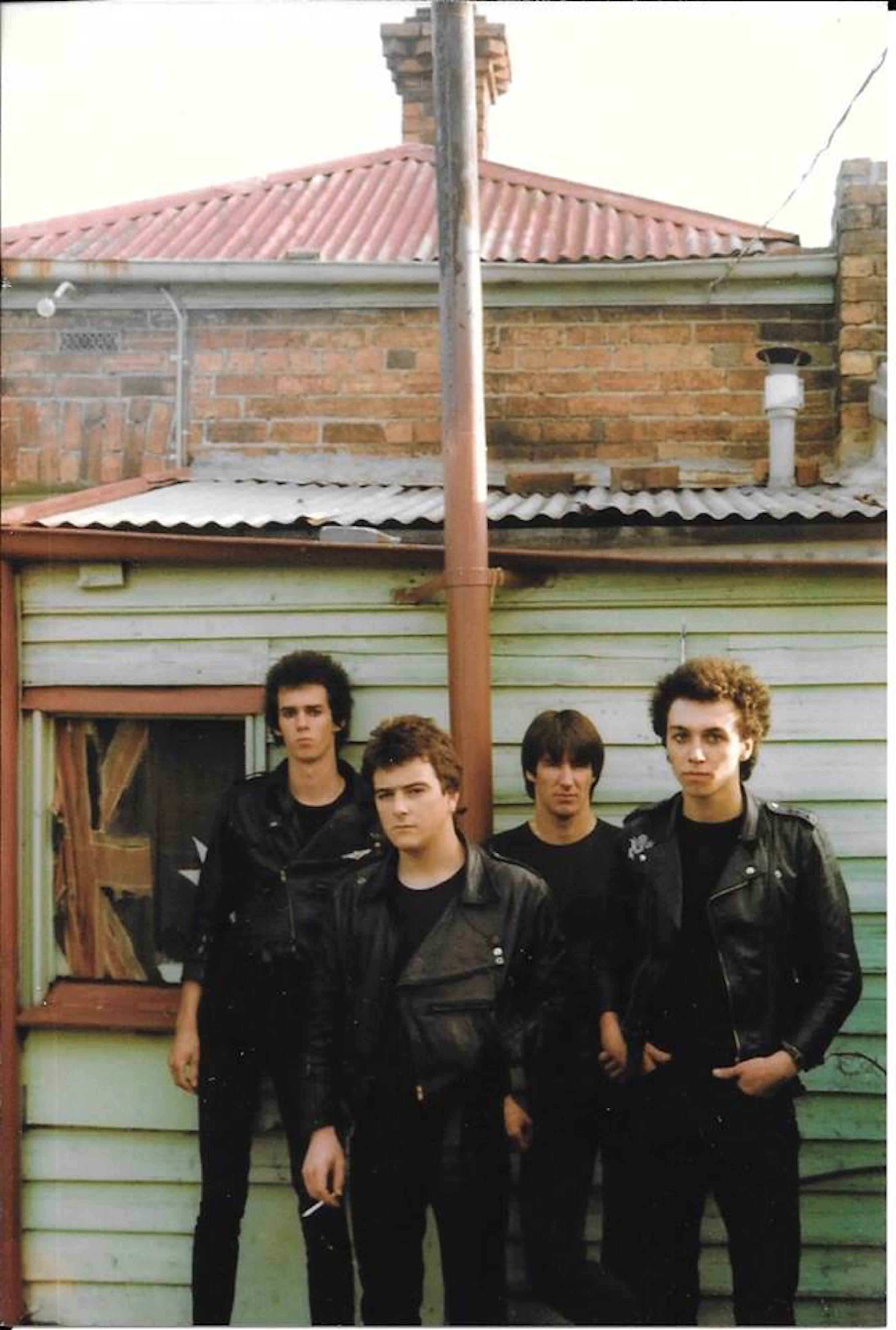 Nic Chancellor-Singer, Craig Russell-Bassist, Greg Pedley-Drummer, Darren Smith-Guitarist. Wilson Street Brunswick Melbourne.